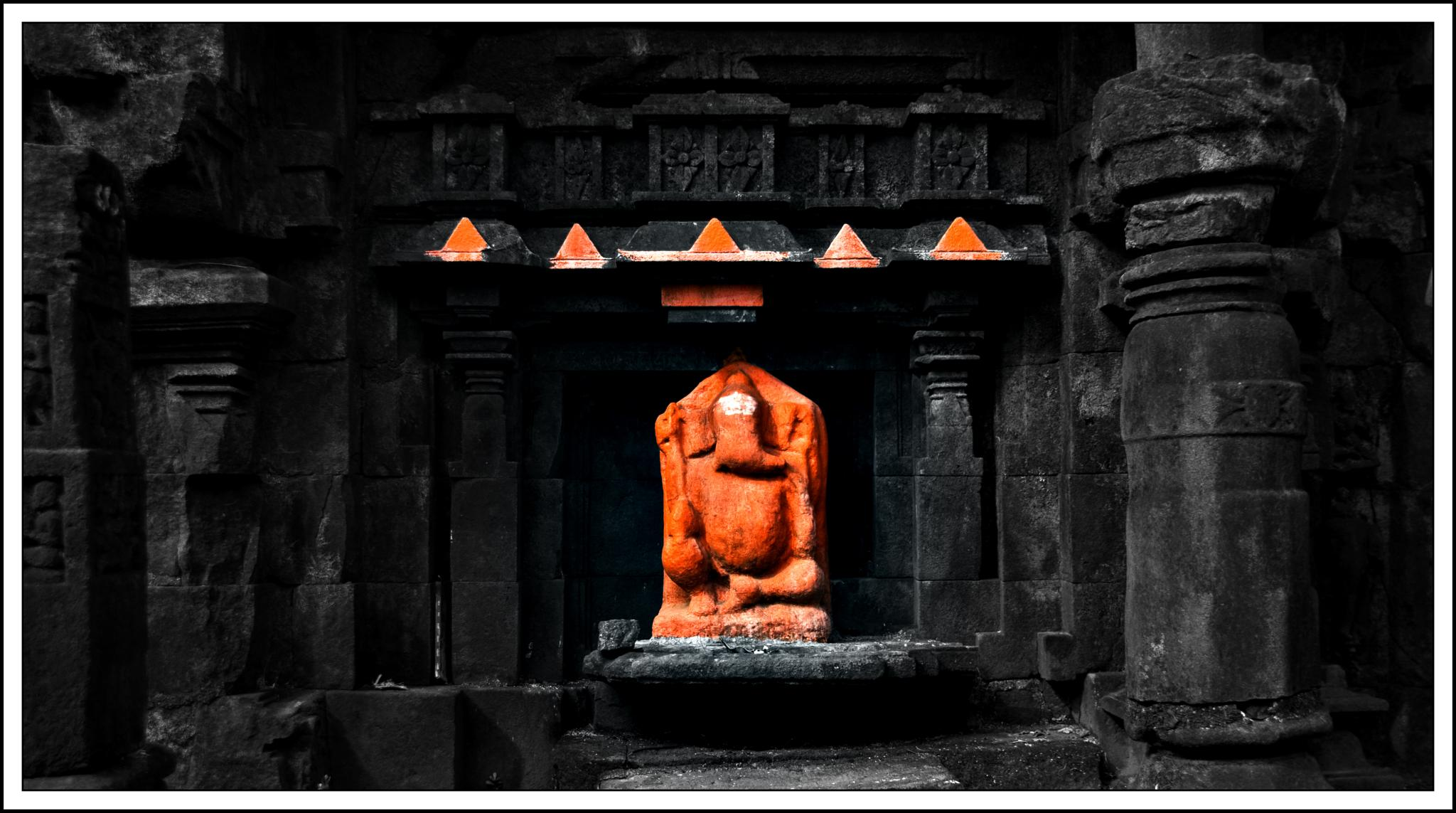 Harishchandreshwar temple on Harishchandragad. This temple is marvelous example of the fine art of carving sculptures out of stones that prevailed in ancient India. The fascinating thing about this temple is that it has been carved out from a single huge rock.